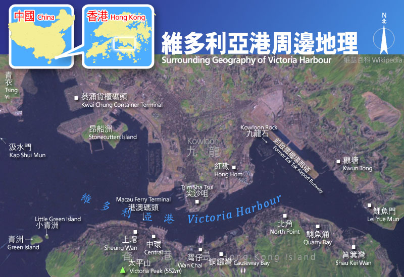 Surrounding Geography of Victoria Harbour, Hong Kong 香港維多利亞港周邊地理